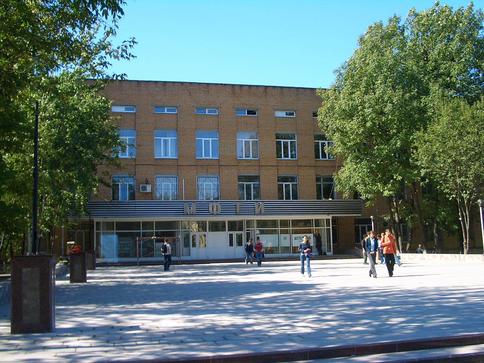 The "New Building" of the MIPT campus